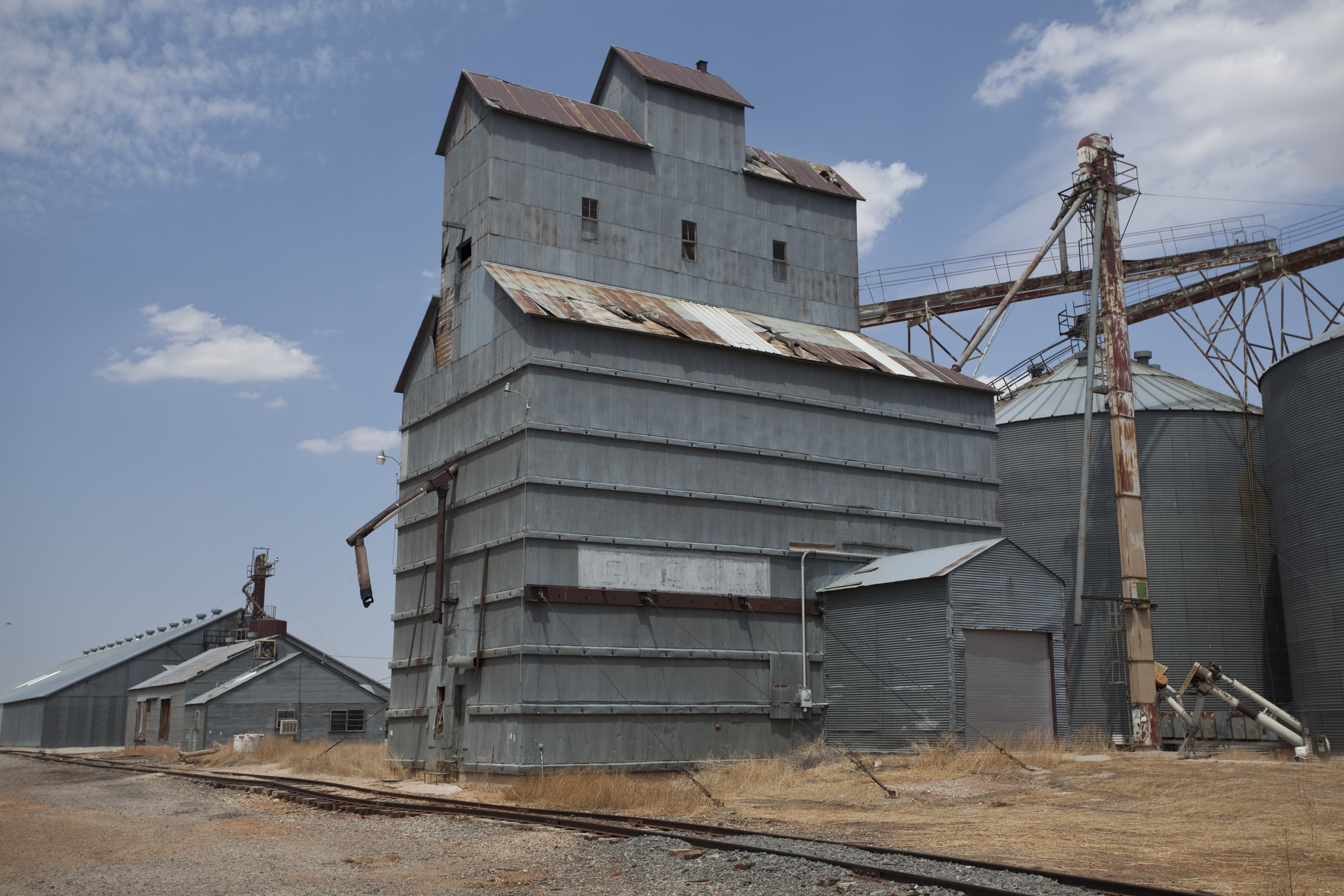 Grain elevator in the ghost town of Grier, Curry County, Eastern New Mexico.